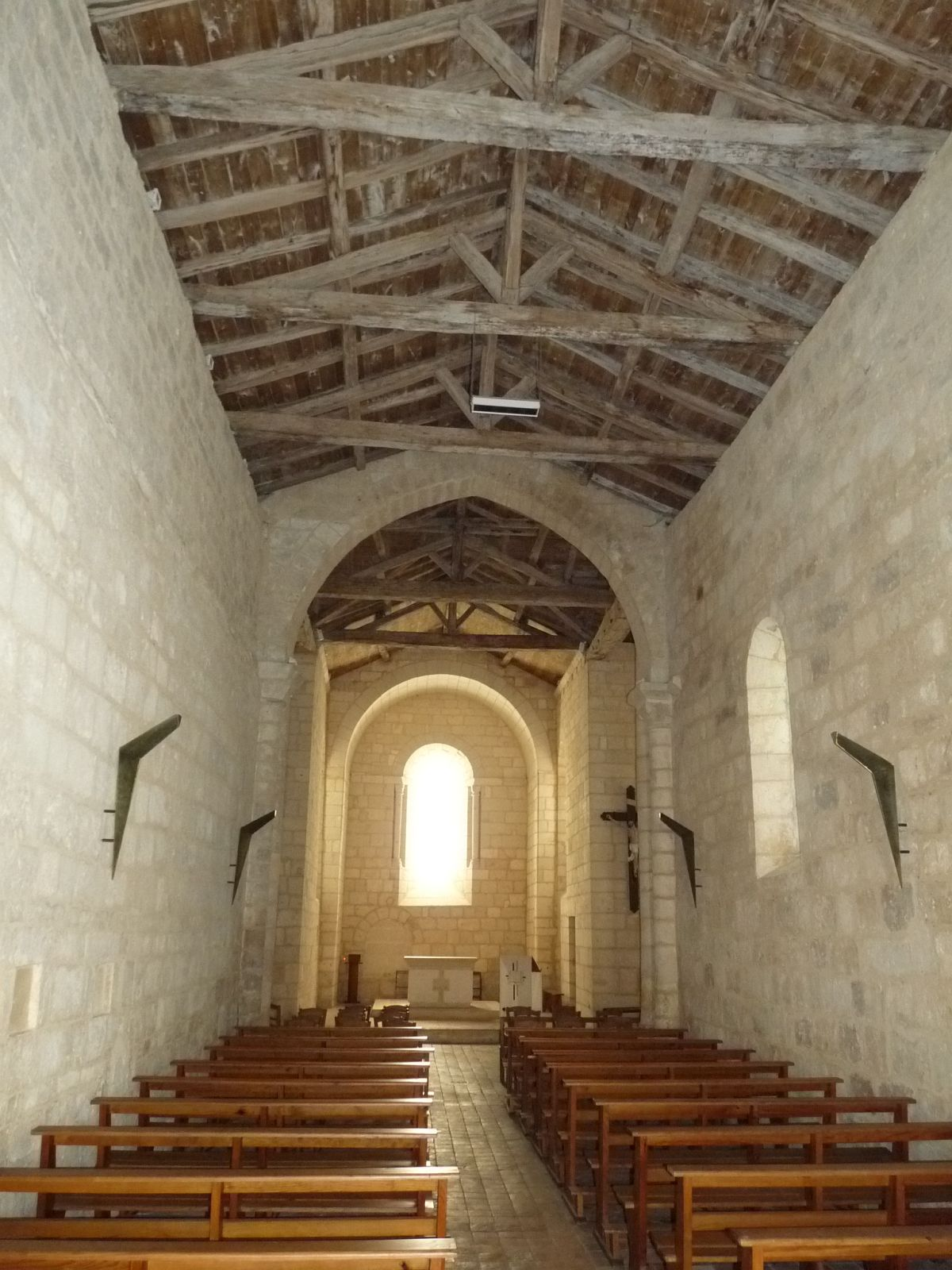 church of Soyaux, Charente, SW France